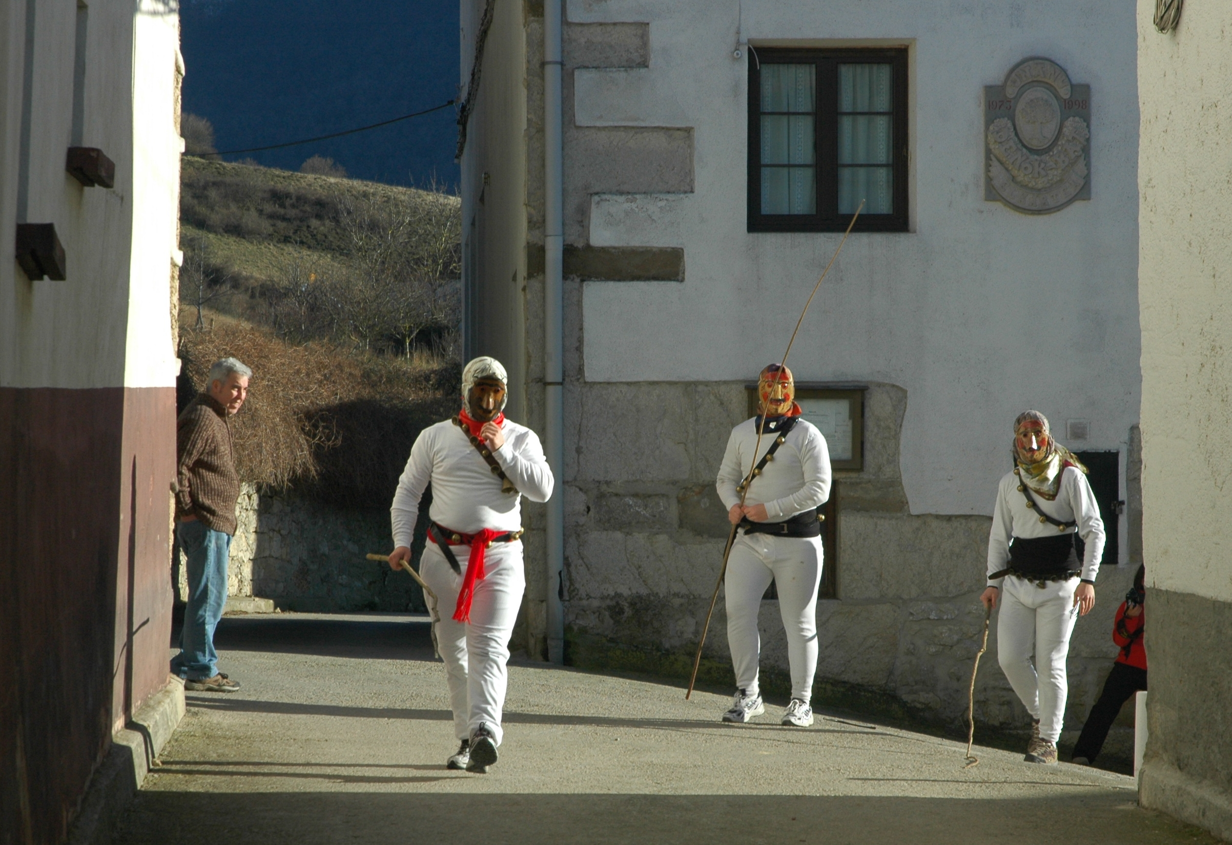 Carnivals in Unanu, Navarre.